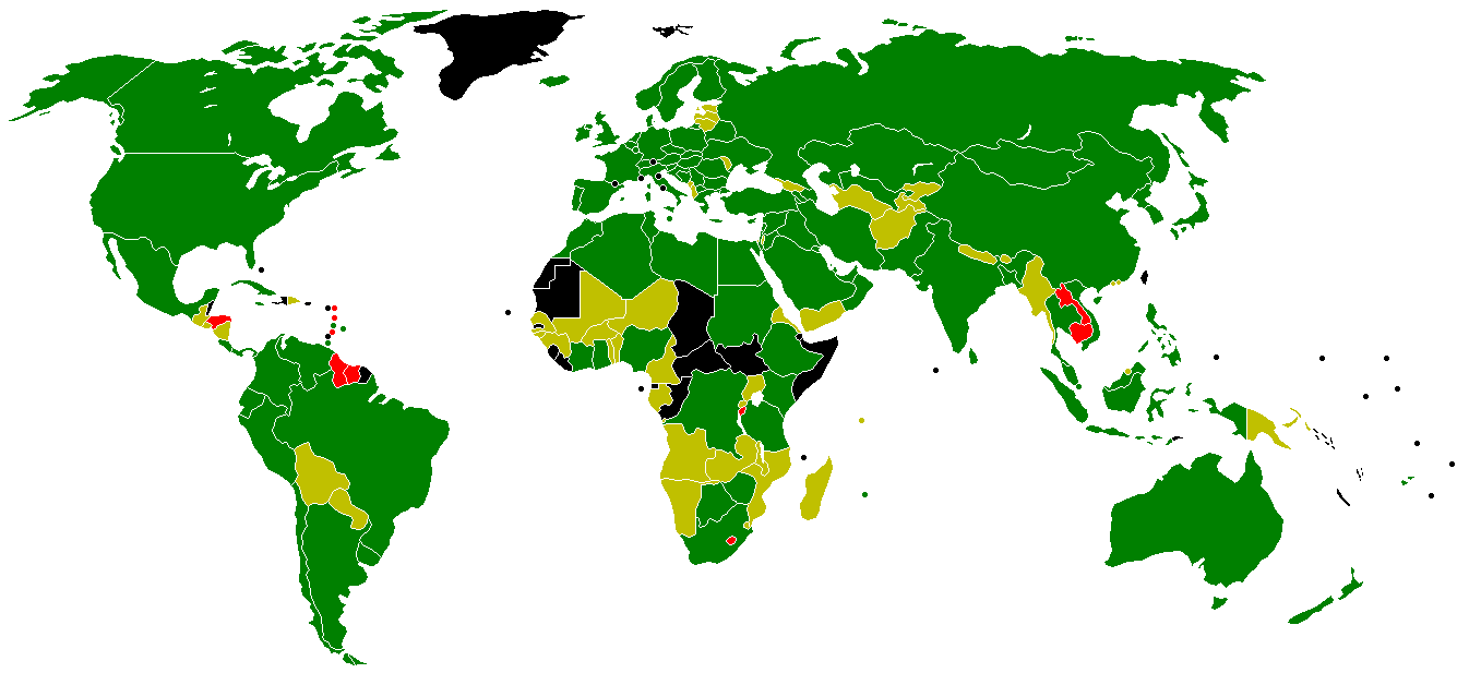 A map of national standards groups that are members of ISO.